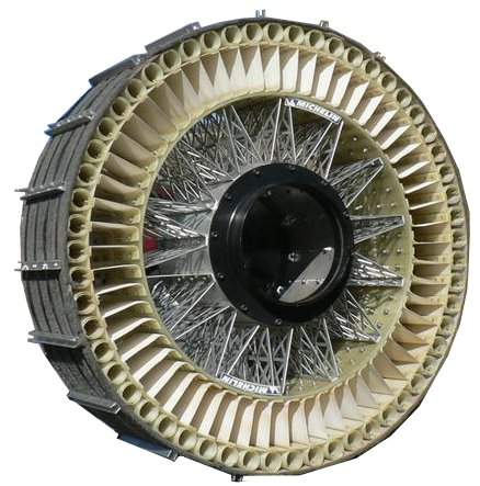 A picture of the Lunar Rover Initiative AB Scarab Tweel. The image was based on the picture at Permission was given for use of the image by Mr. David Wettergreen